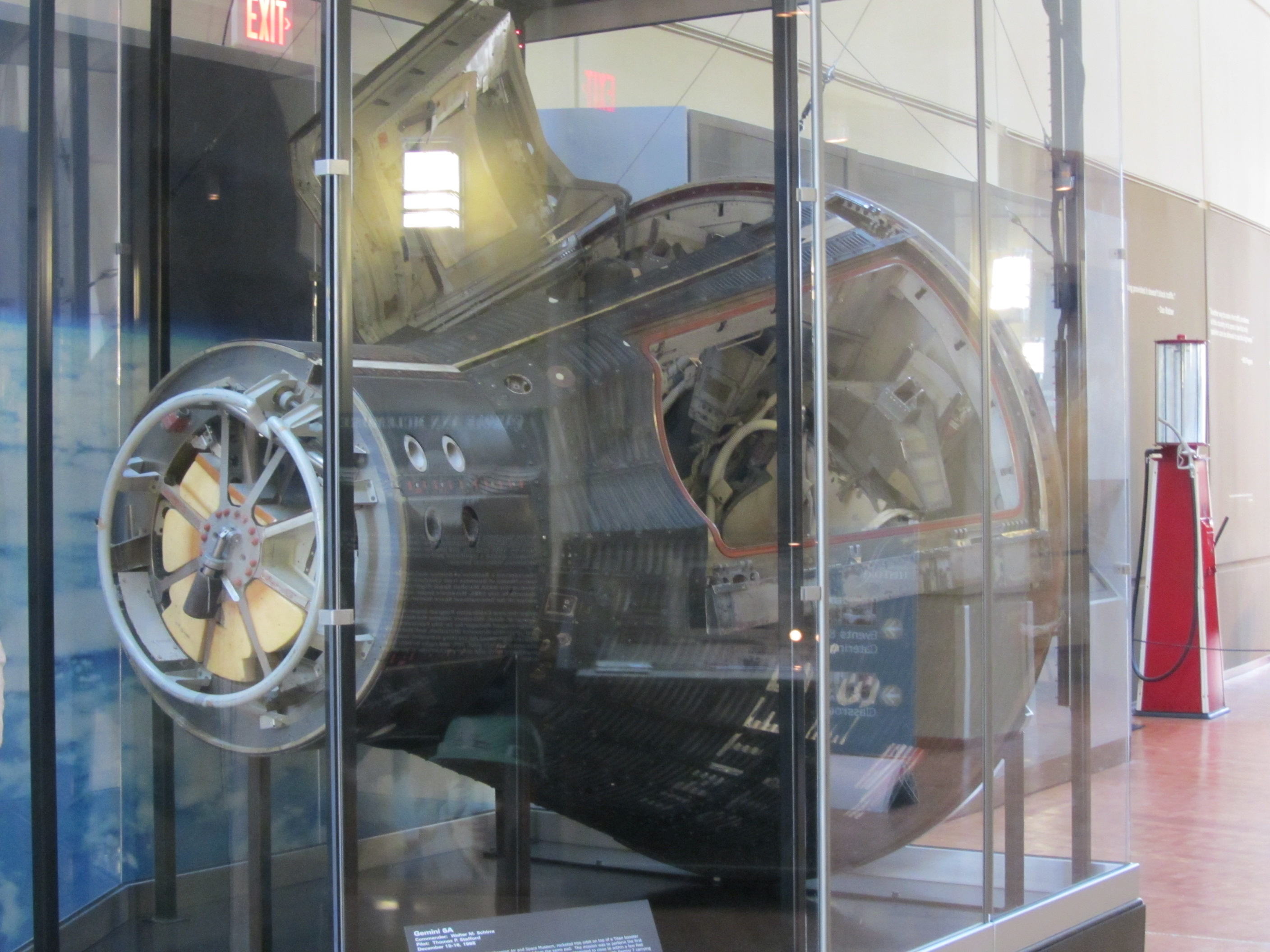 Gemini VI-A, Oklahoma History Center in Oklahoma City